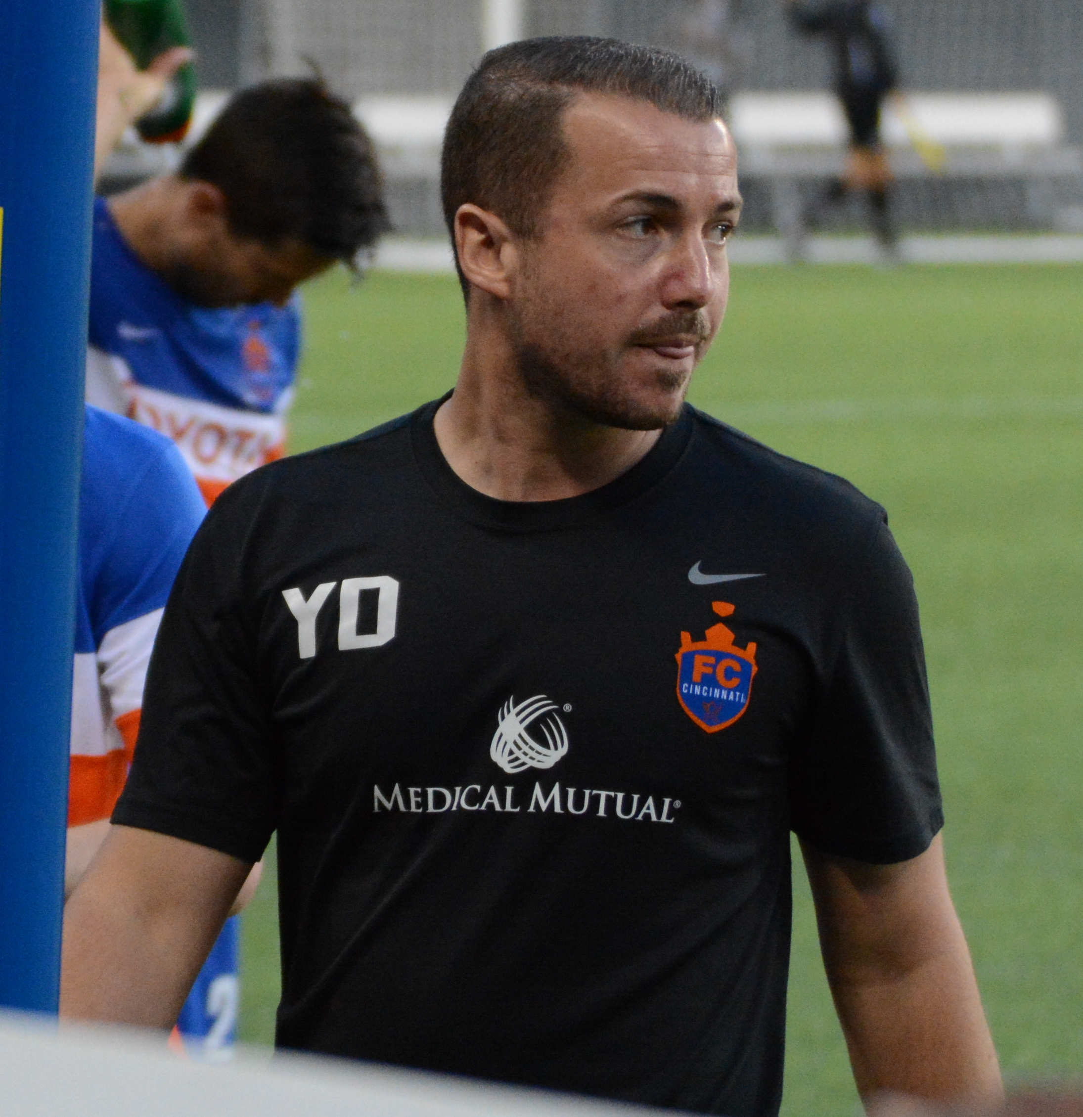 Yoann Damet Taken during a match between FC Cincinnati and Tampa Bay Rowdies at Nippert Stadium in Cincinnati, USA on April 19, 2017.